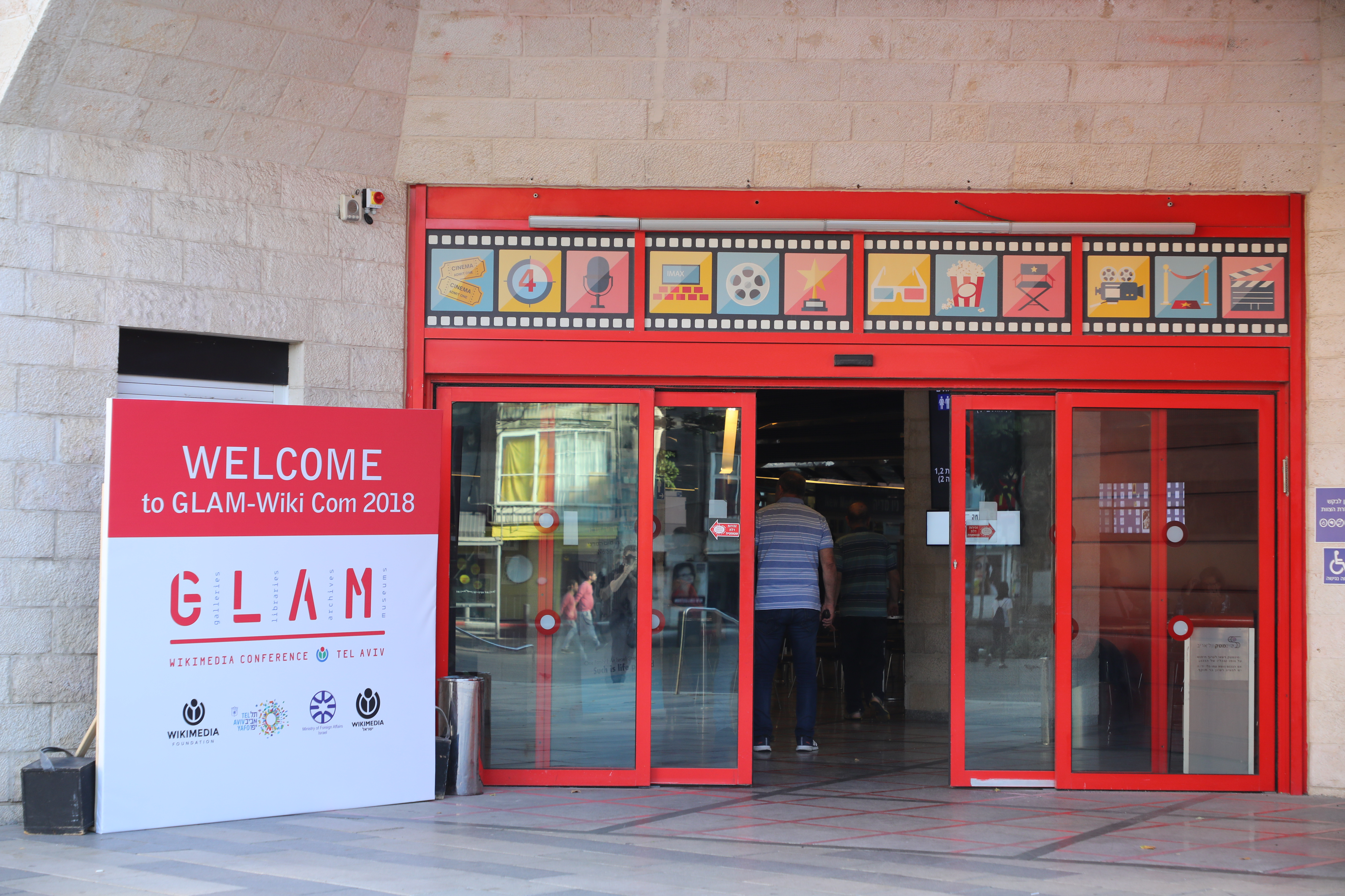 GLAM WIKI TLV 2018